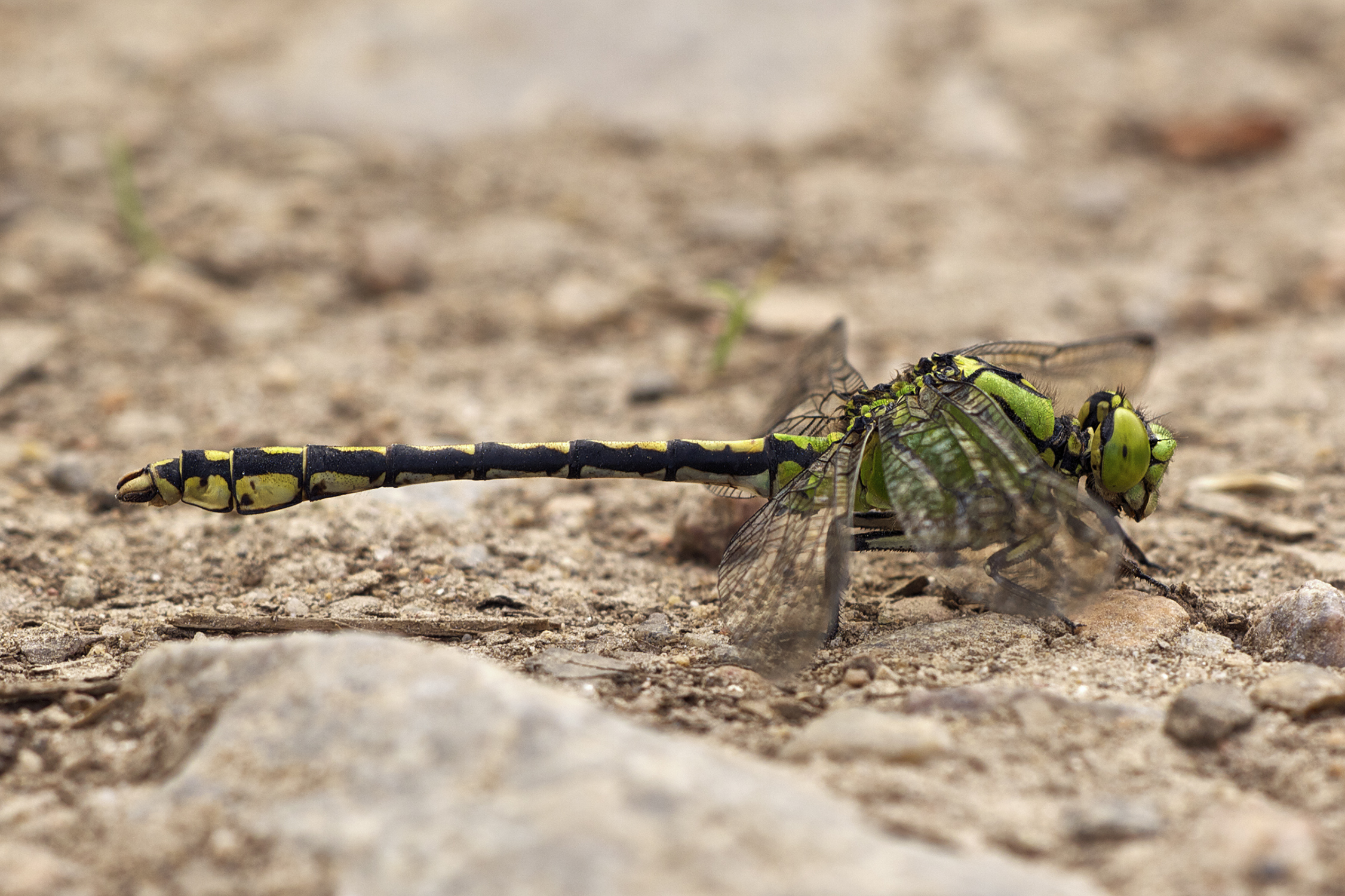 Green Gomphid (Ophiogomphus cecilia), Wittgensdorf, Germany